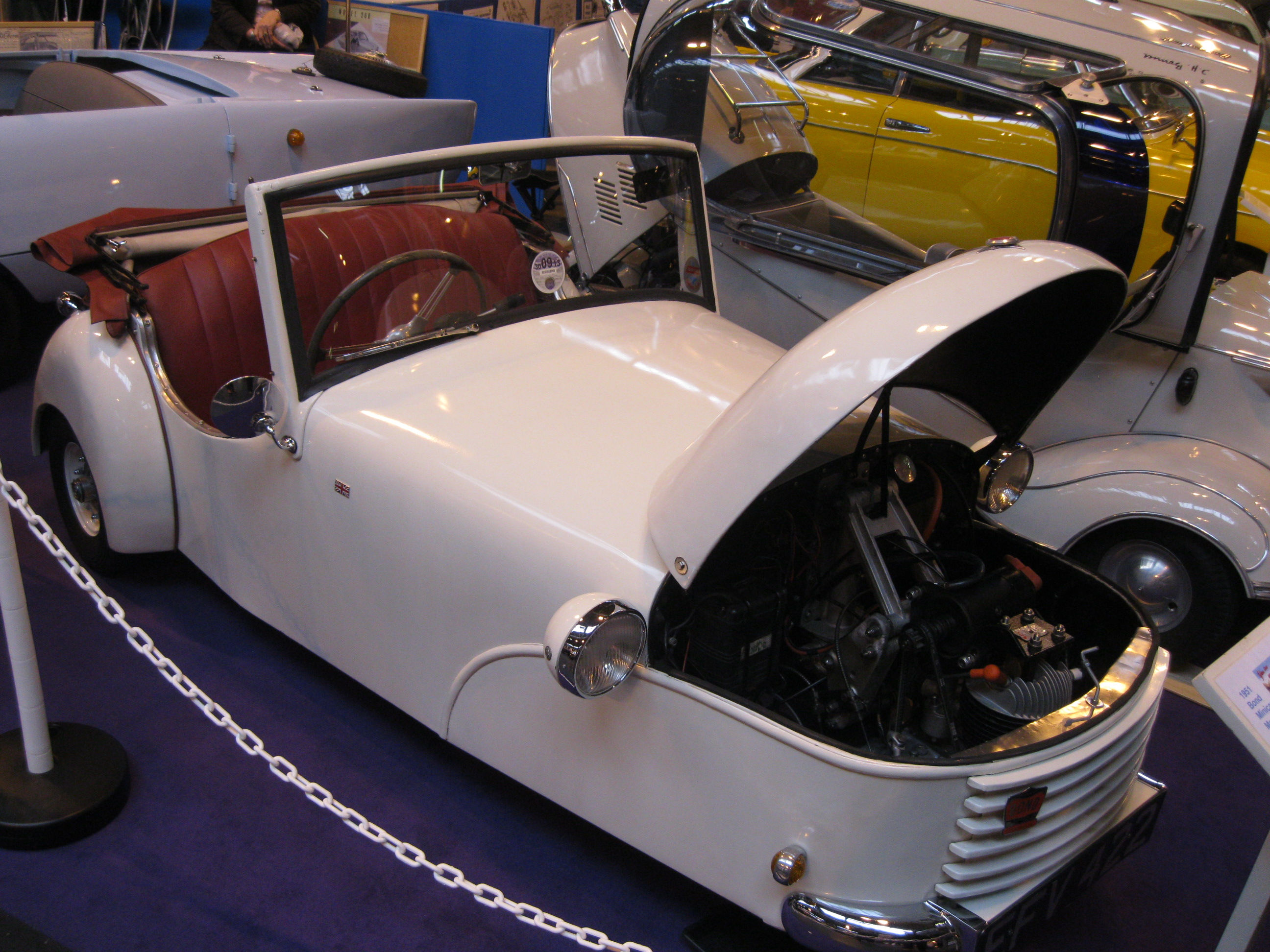 Early 3-wheeled open British Microcar. Spotted at the Birmingham NEC Classic Car Show, November 2012.